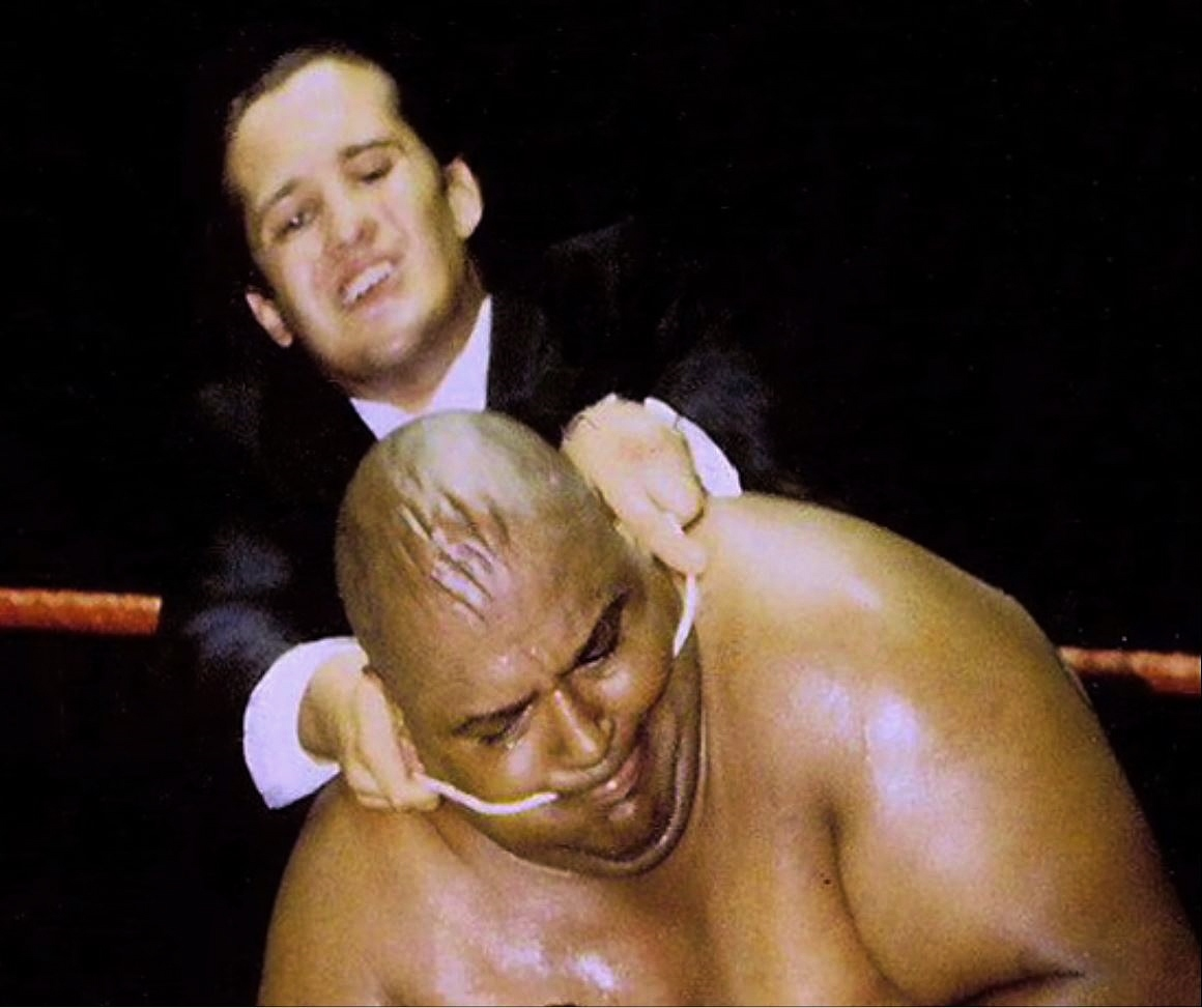 Montana restraining Abdullah The Butcher in 1988